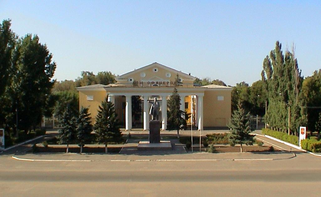 Дом Офицеров (Знаменск, Астрахань)